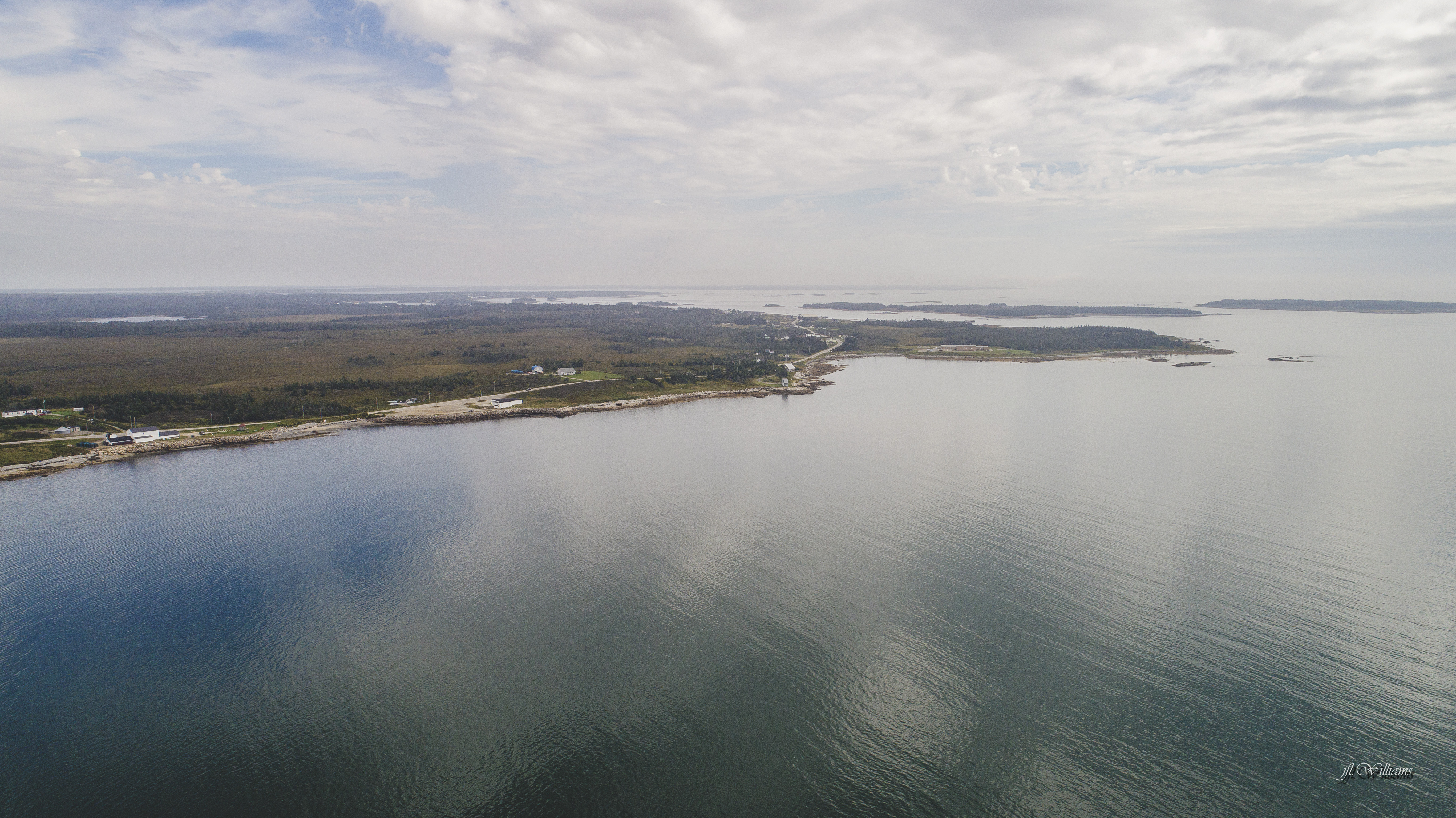 Aerial view of location where the Shag Harbour Incident occurred.